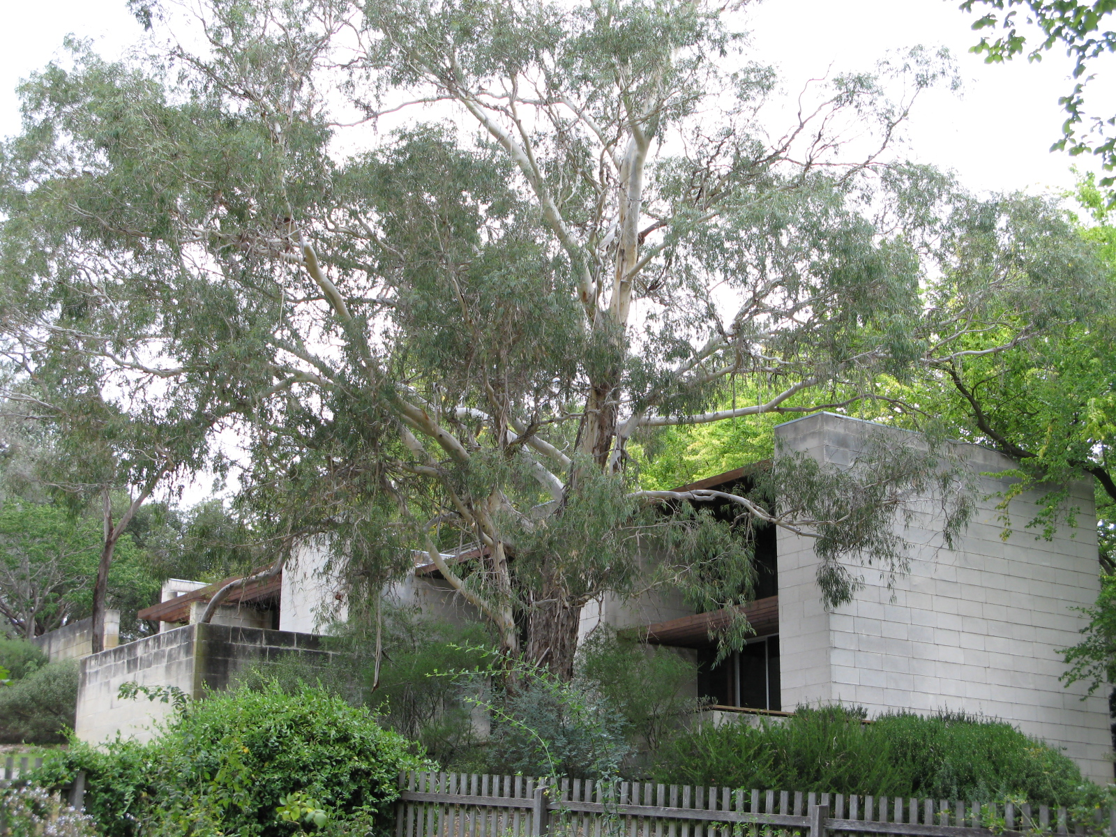 Heide 3, part of the Heide Museum of Modern Art. Photo taken by myself in 2008.